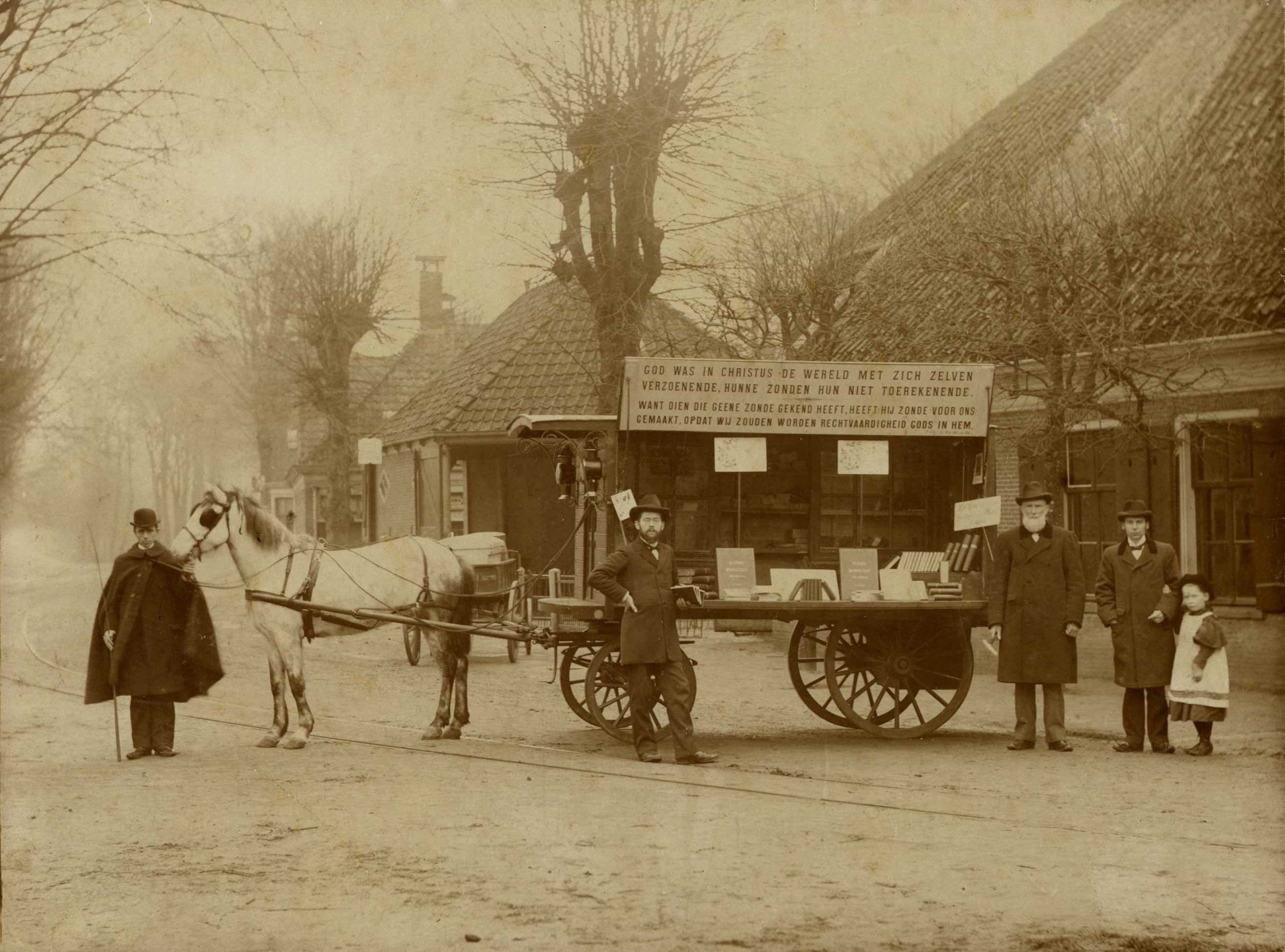 Bible colporteurs in Heiloo, North Holland in 1896. The Bible Wagon in Heiloo. On the far right the reformed minister Rev. FJJ Loeff with his daughter. The inscription on the car is derived from the Bible text from 2 Corinthians 5:19-21.